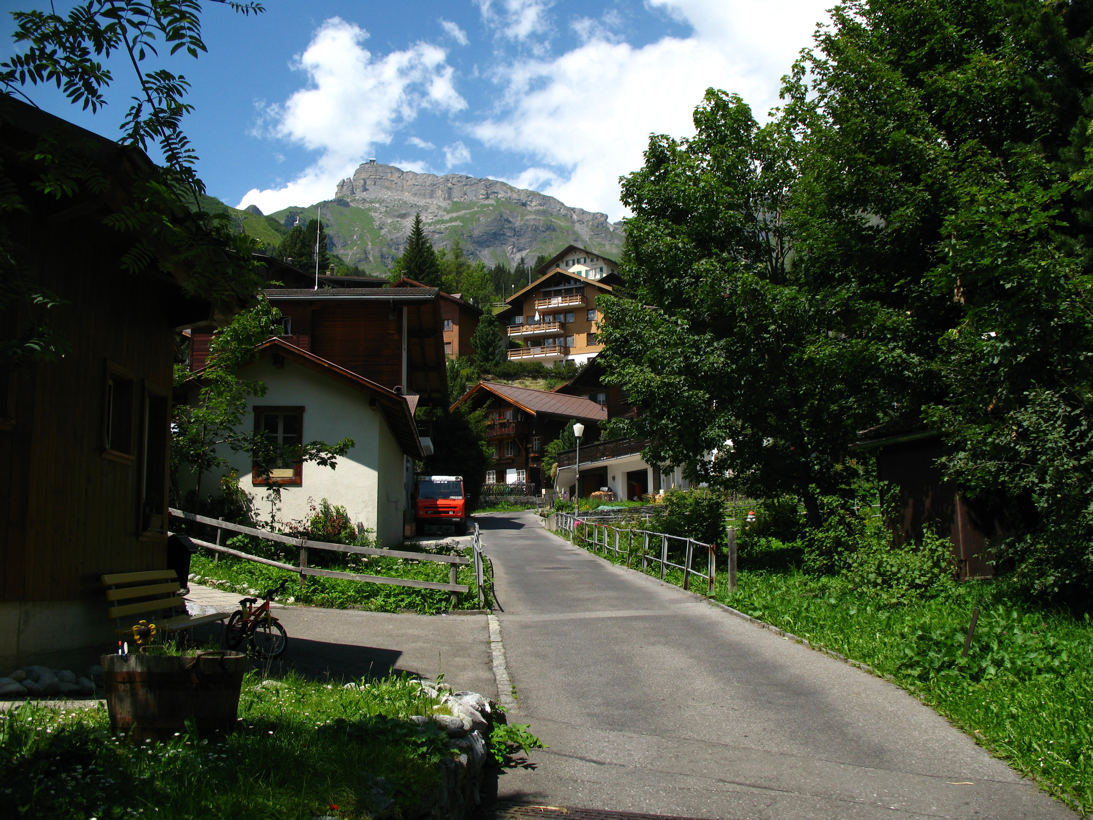 View from Niedenmatten, Mürren, Switzerland